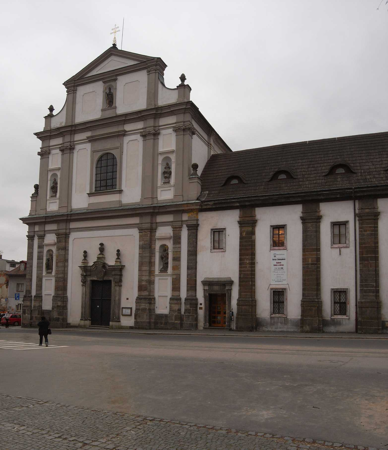 left building: All Saint's Church; right building: Regional museum of Česká Lípa (complex of Augustinian monastery)